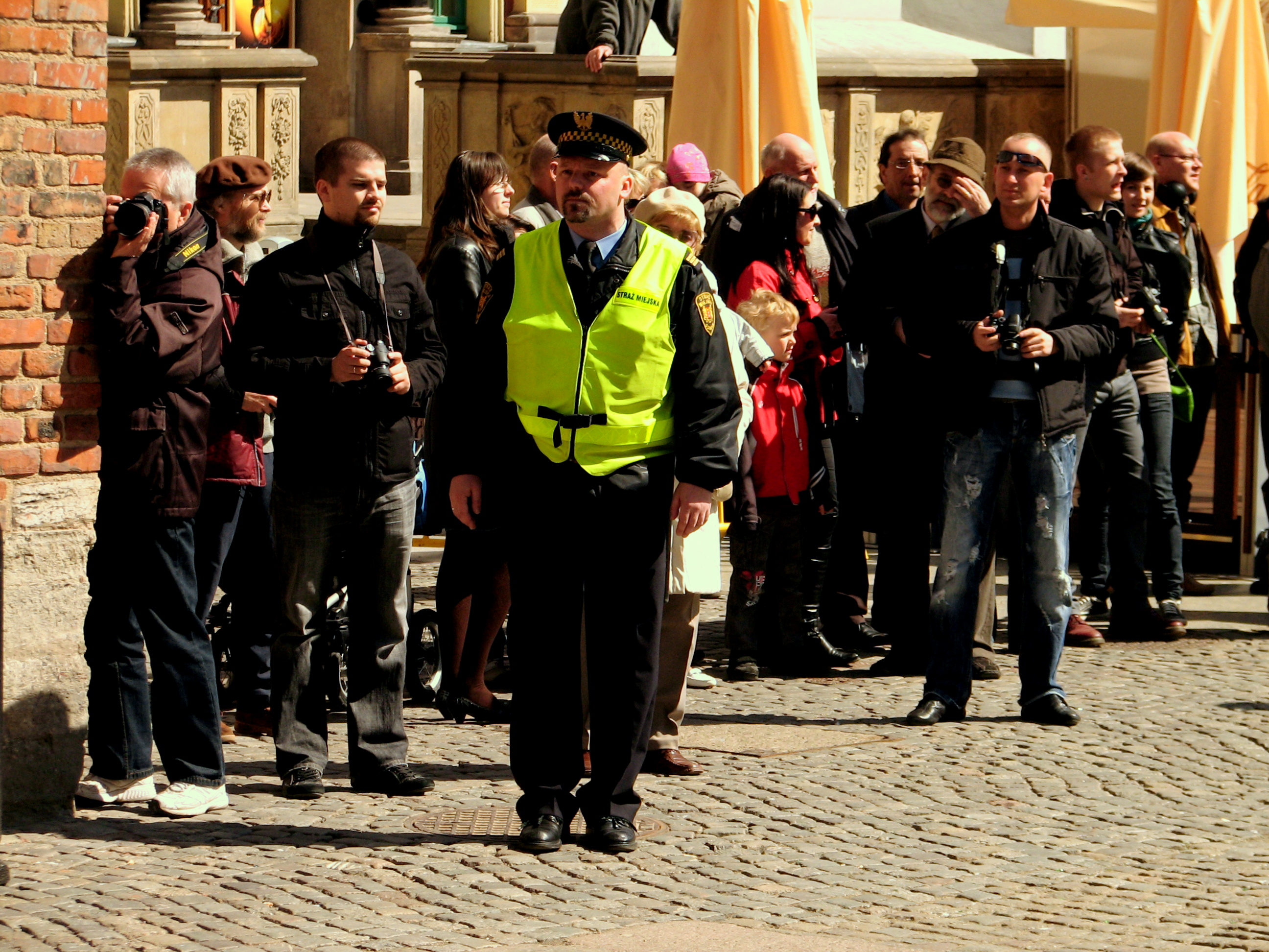 Reenactment of the entry of Napoleon to Gdańsk after siege.